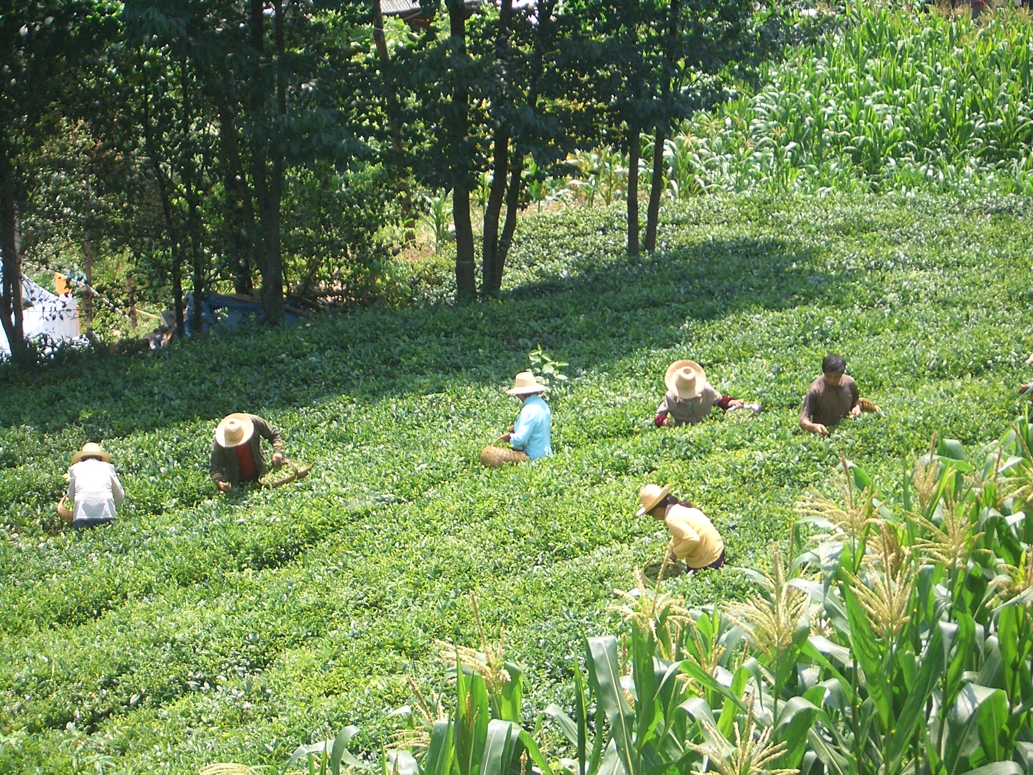 Tea plantation in Muyu Town, Shennongjia, right next to the narrow valley built up with hotels etc